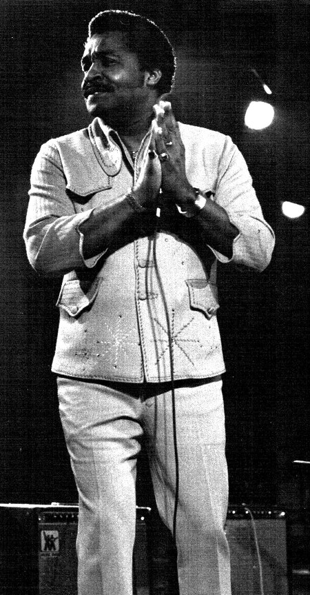 Soul-Blues Singer Little Milton in France